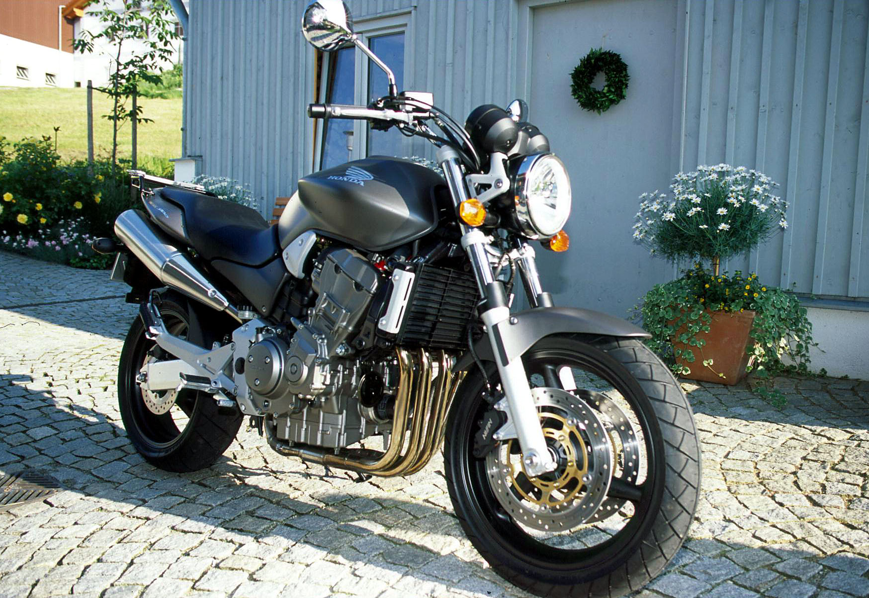 Honda CB900F scanned image